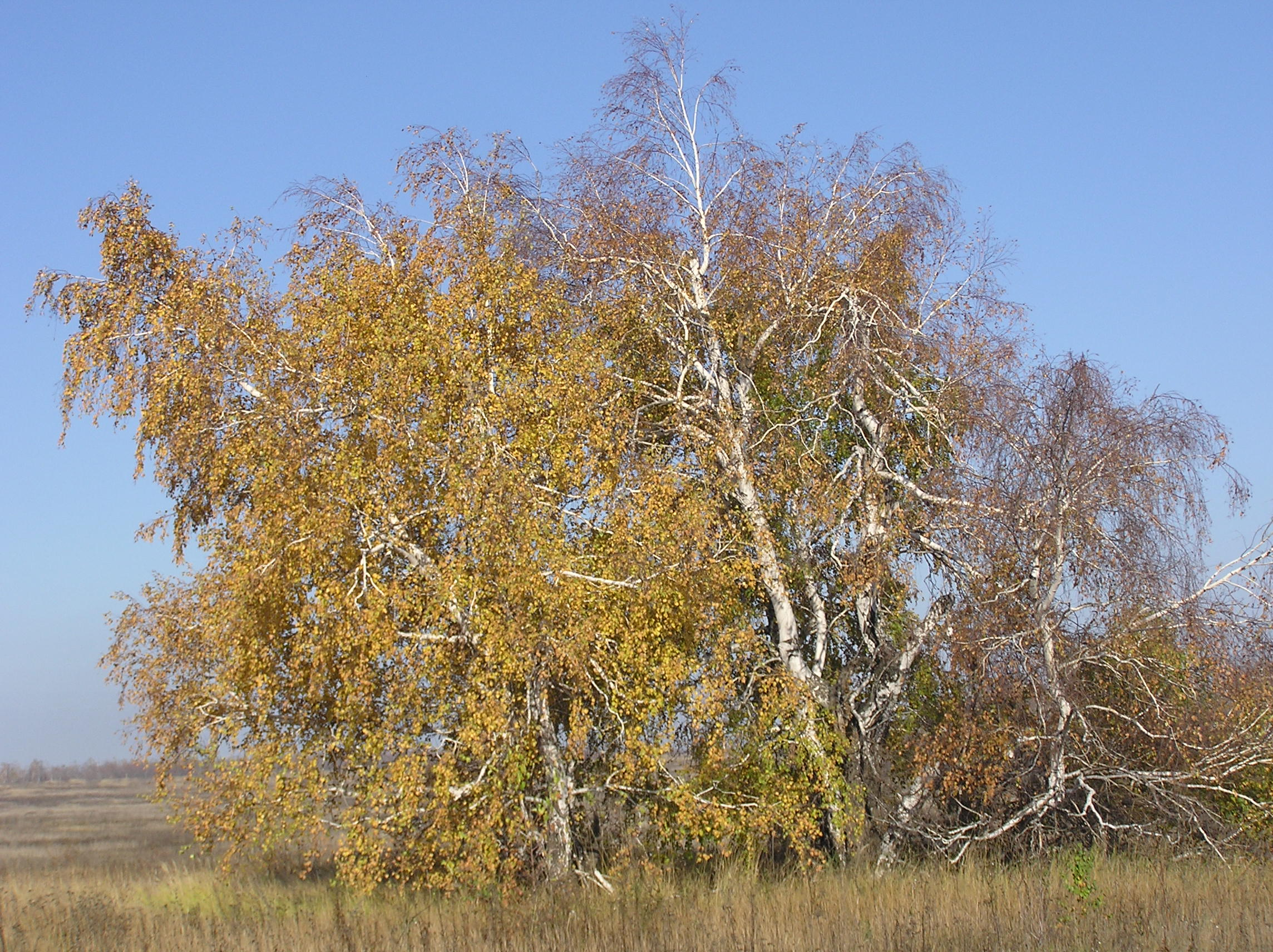 A thicket of Betula pendula Roth (Silver Birch) in the fall. Habitat: a space between an abandoned agricultural field and a forest. Vicinity of Saratov city, Russia.